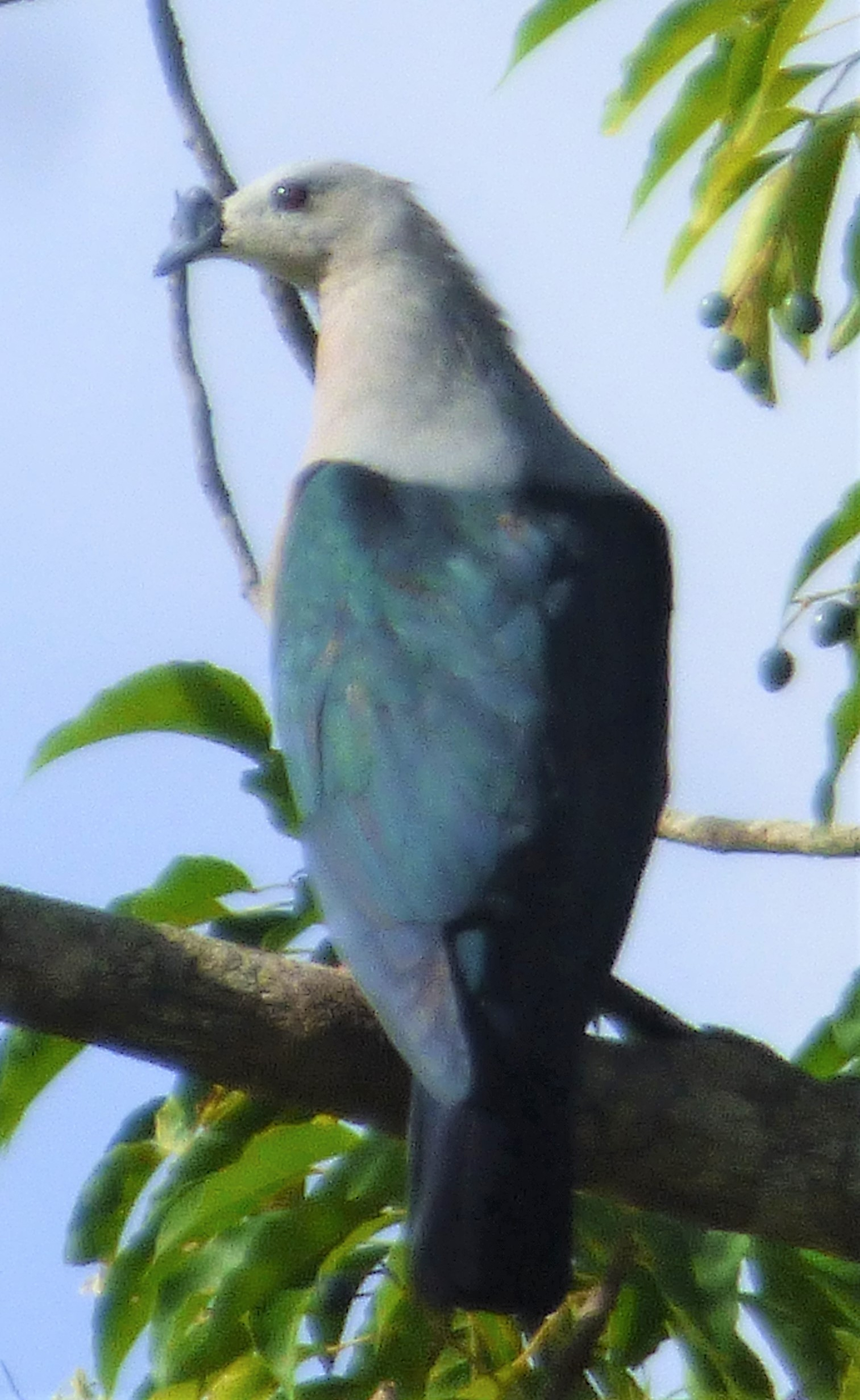 Pacific imperial pigeon, Aore Island, Vanuatu